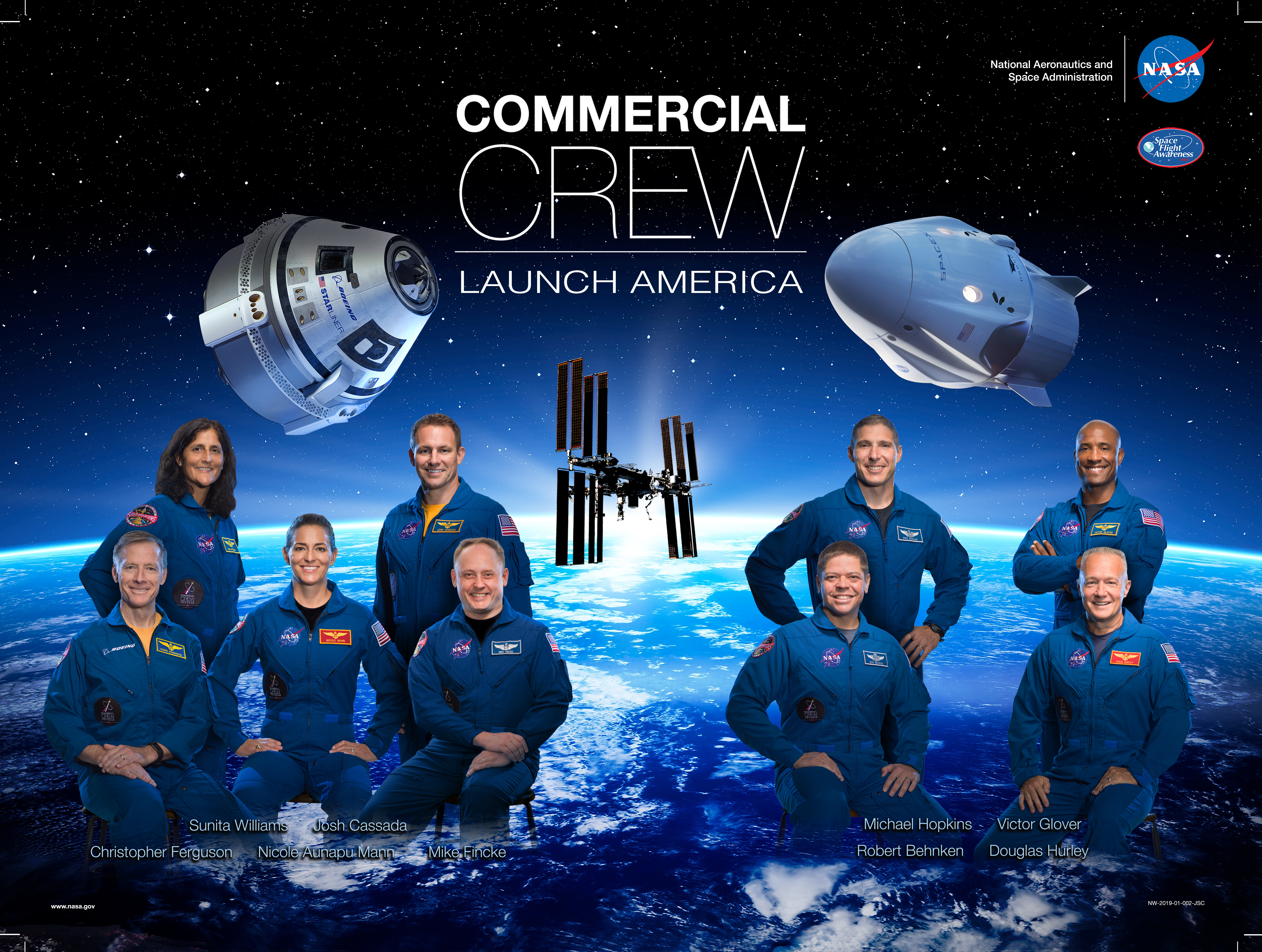 The Commercial Crew Launch America poster highlights the astronauts assigned to the first test flights of American-made, commercial spacecraft to and from the International Space Station. The team of five astronauts on the left is assigned to Boeing's CST-100 Starliner Commercial Crew vehicle and consists of (front row from left) Chris Ferguson, Nicole Mann and Mike Fincke. In the back row (from left) are Suni Williams and Josh Cassada. The team of four astronauts on the right is assigned to SpaceX's Dragon Commercial Crew vehicle and consists of (front row from left) Bob Behnken and Doug Hurley. In the back row (from left) are Mike Hopkins and Victor Glover.